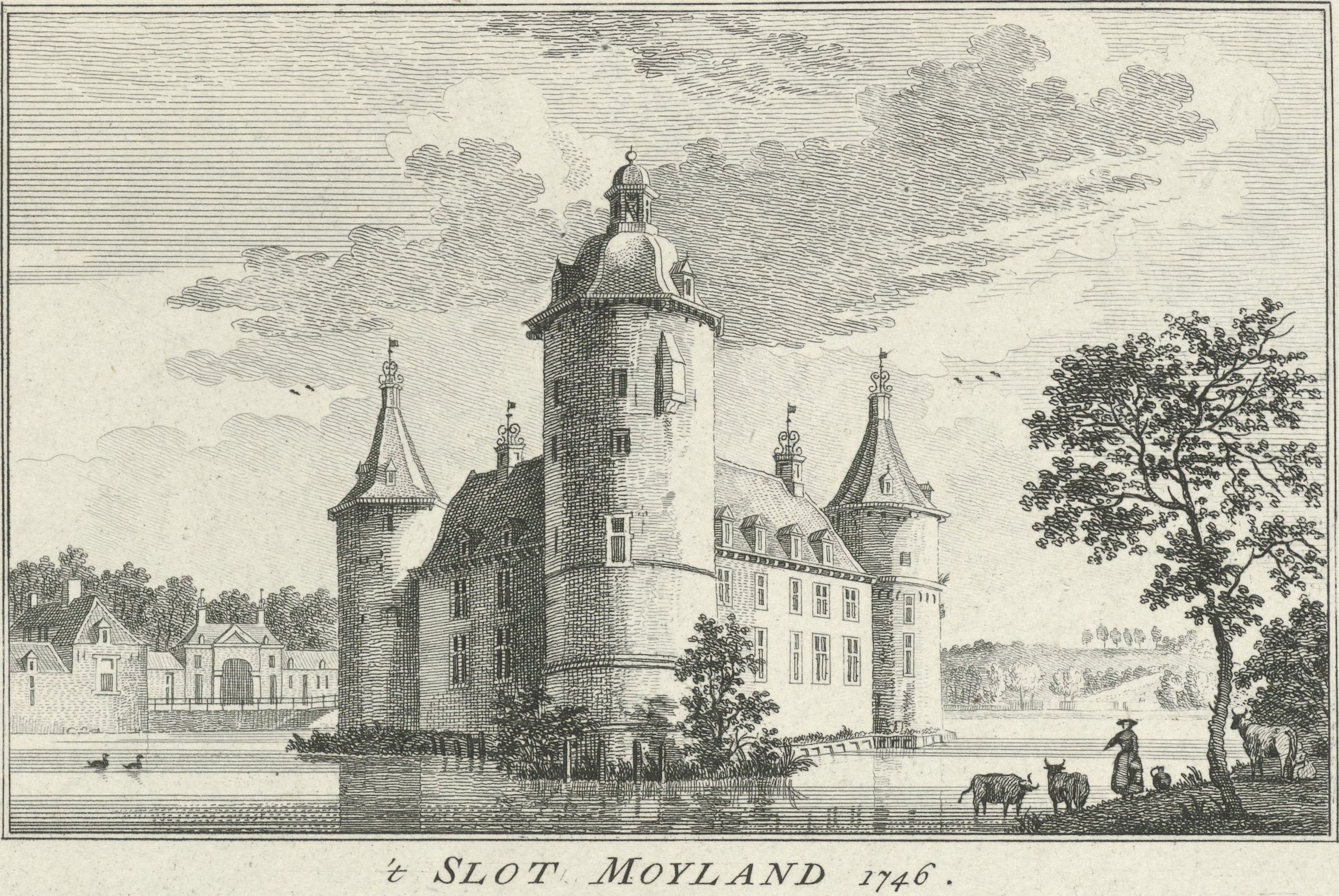 Castle Moyland 1746, engraving after a drawing by Jan de Beijer